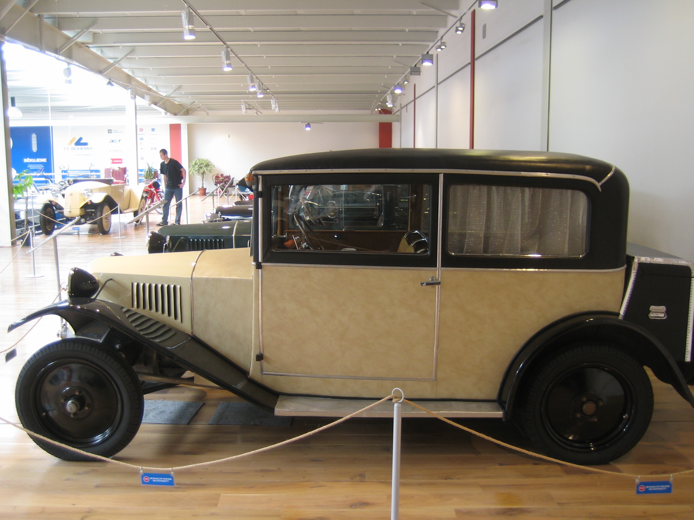 Tatra 12 Wayman carrossery